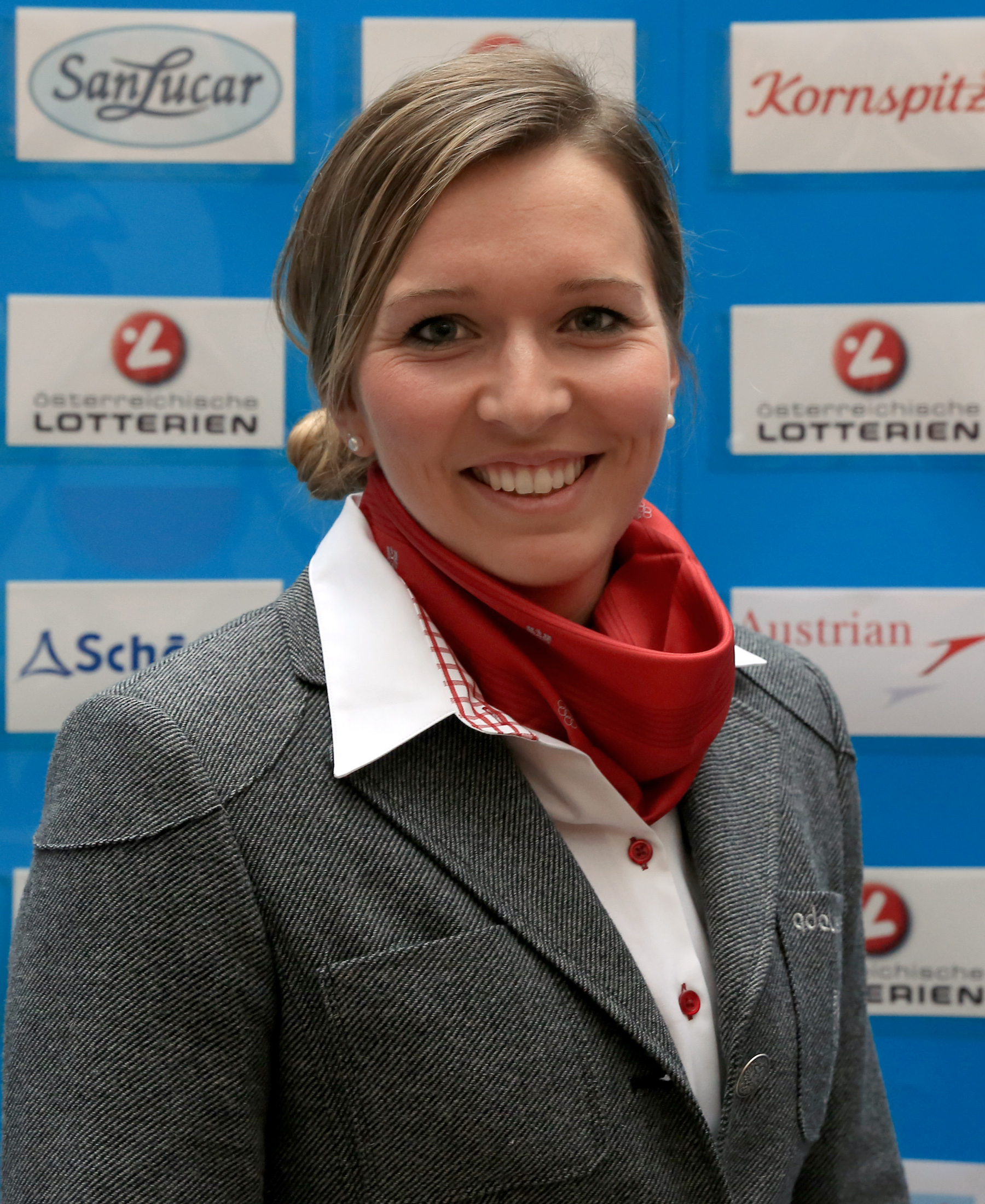 Christina Hengster (bobsleigh) at the outfitting of the Austrian team for the 2014 Winter Olympics (Hotel Marriott in Vienna, Austria.